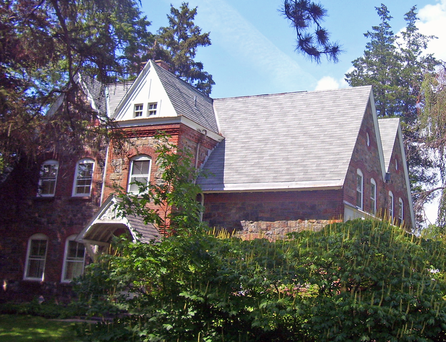 Rectory at St. Luke's Episcopal Church, Beacon, NY, USA